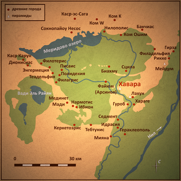 Map of archaeological sites in the Faiyum, showing the location of Hawara.